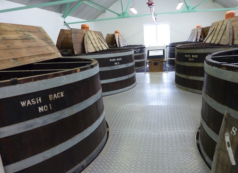 Dallas Dhu Distillery, Moray, Scotland - wash backs